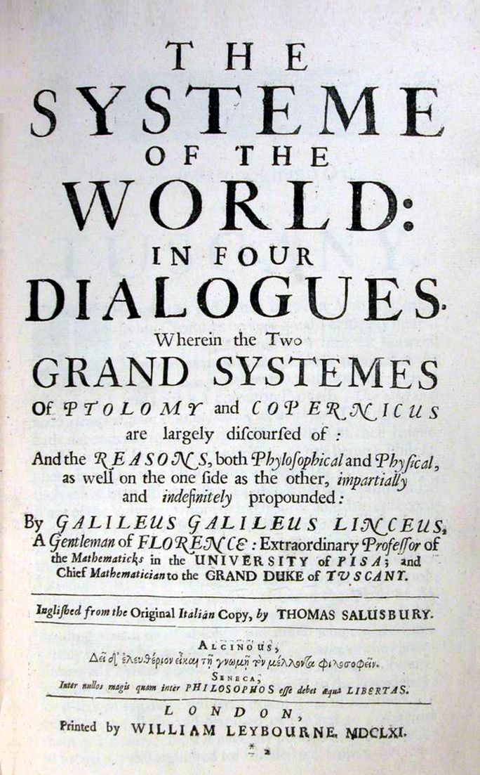 The Systeme of the World, in Four Dialogues, title page 1661